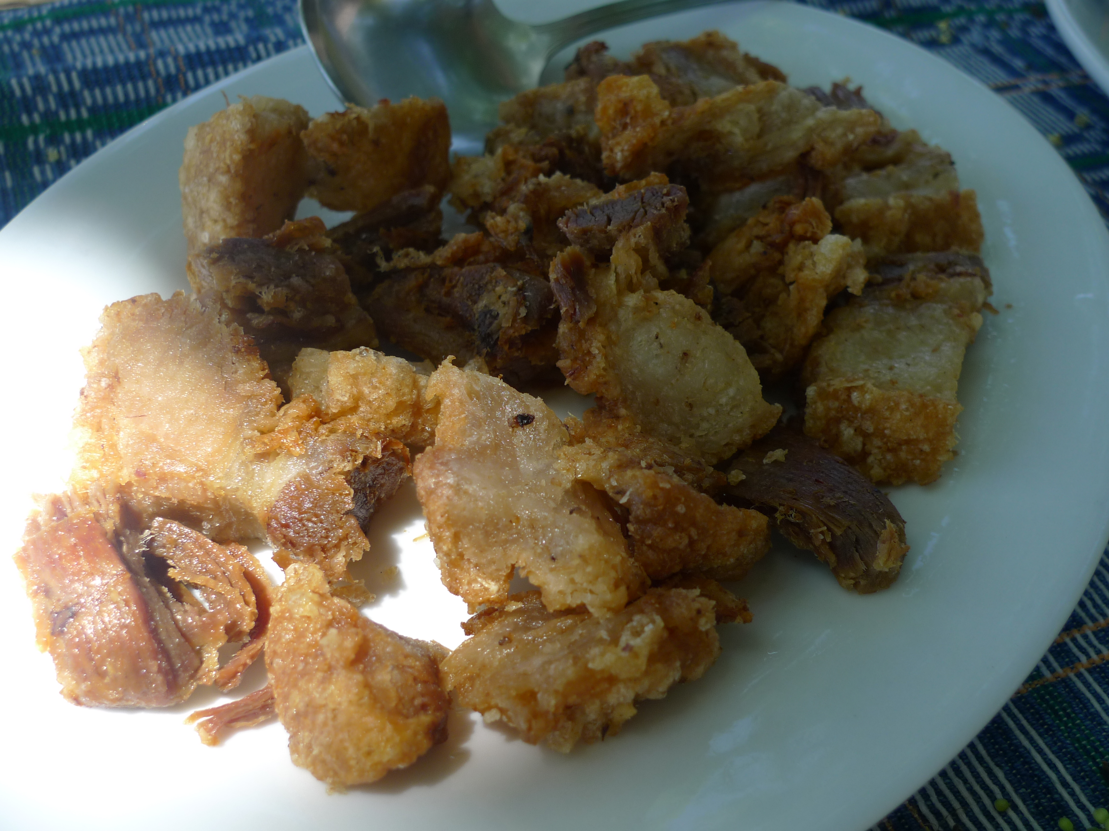 Ilocos Norte Currimao Sitio Remedios - Bagnet